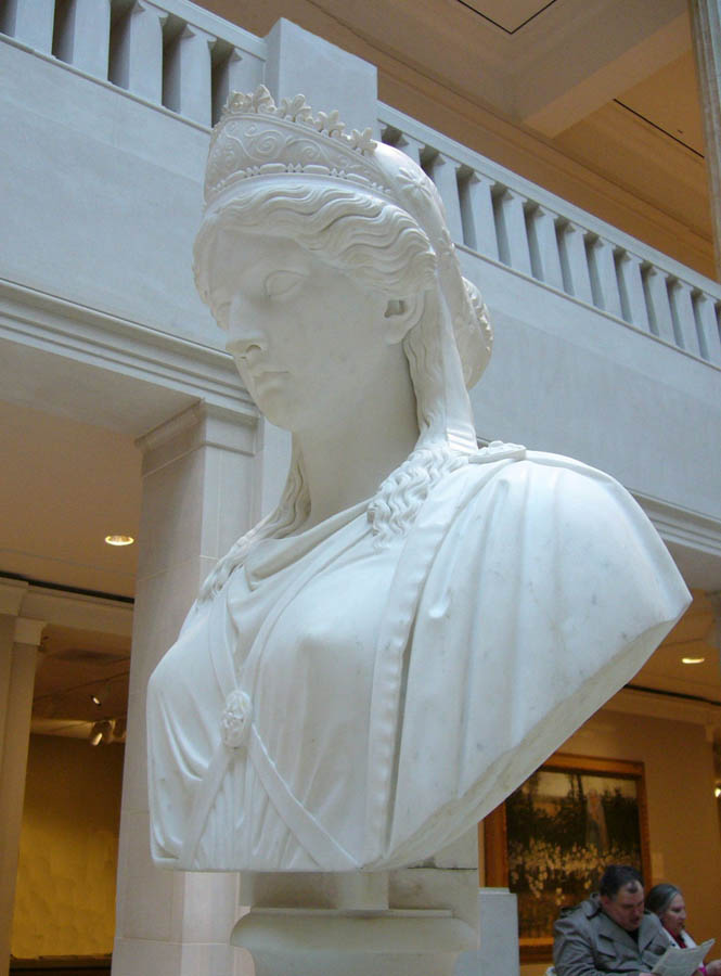 Harriet Hosmer (1830-1908) "Zenobia - Queen of Palmyra", 1857